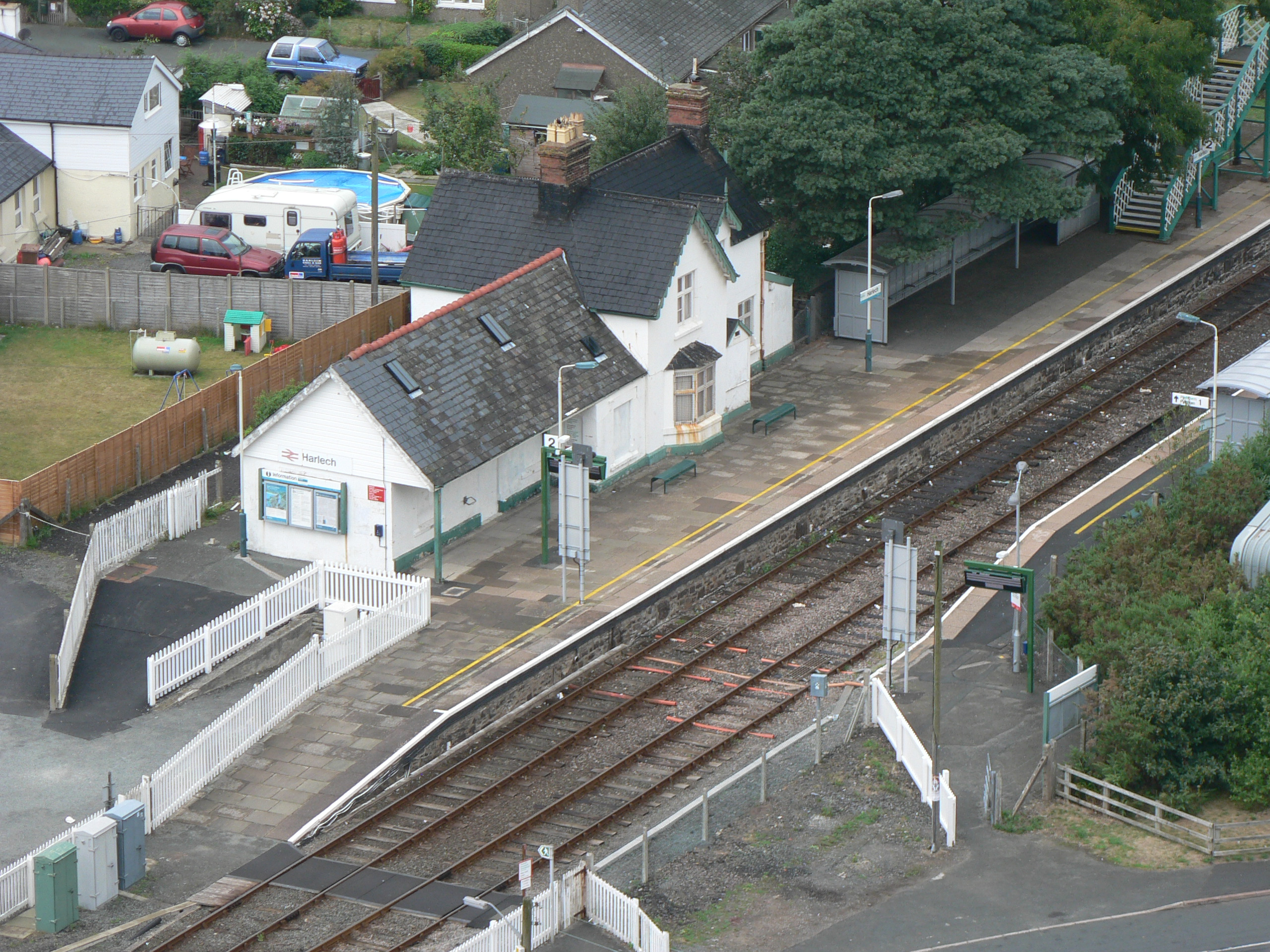 Harlech railway station as seen from Harlech castle. Taken by myself User:PiffPuffPickle in August 2006.